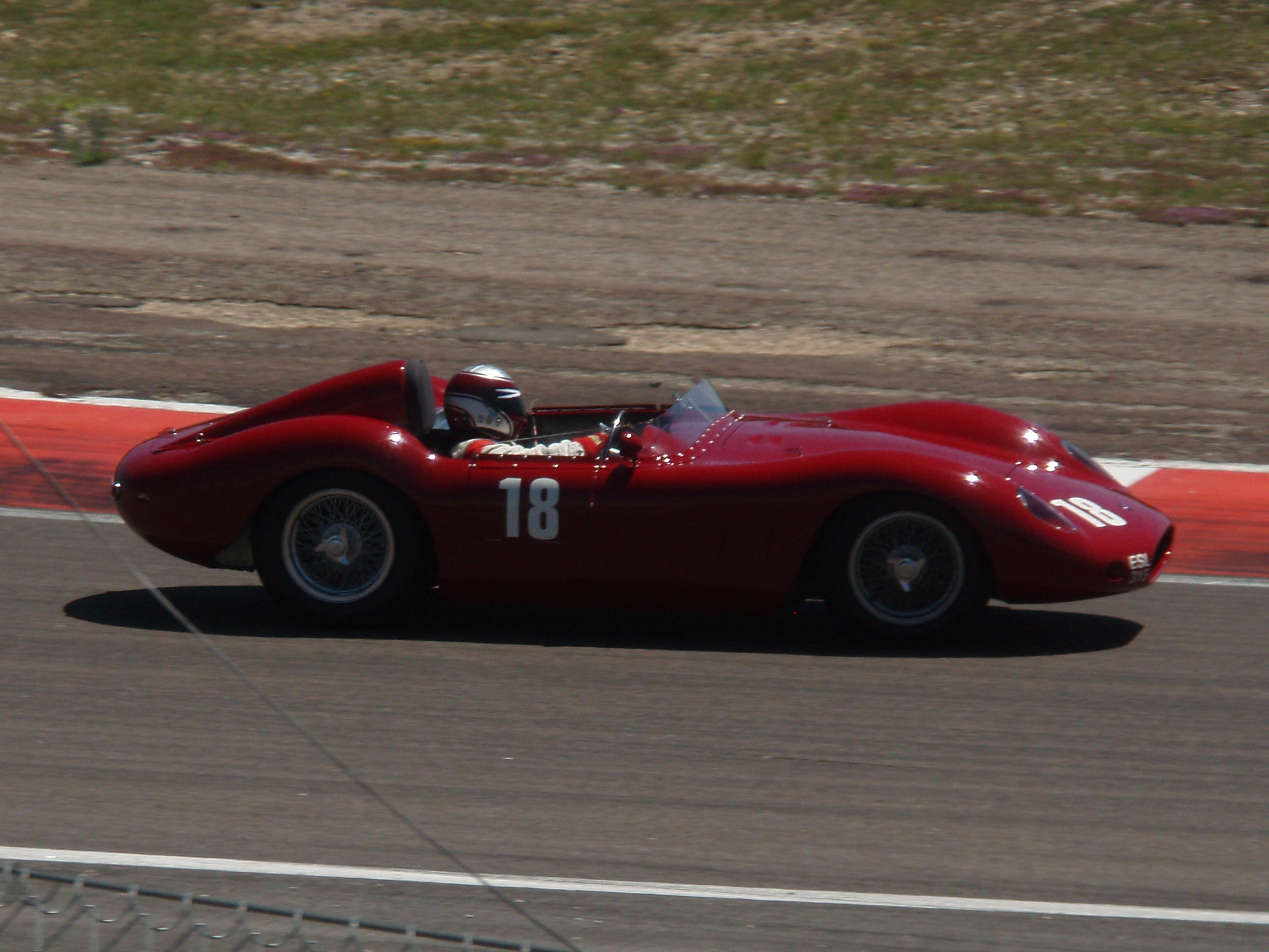 Maserati 250S racing during the Stirling Moss Trophy, 2011 Grand Prix de l'Âge d'Or in Dijon-Prenois.